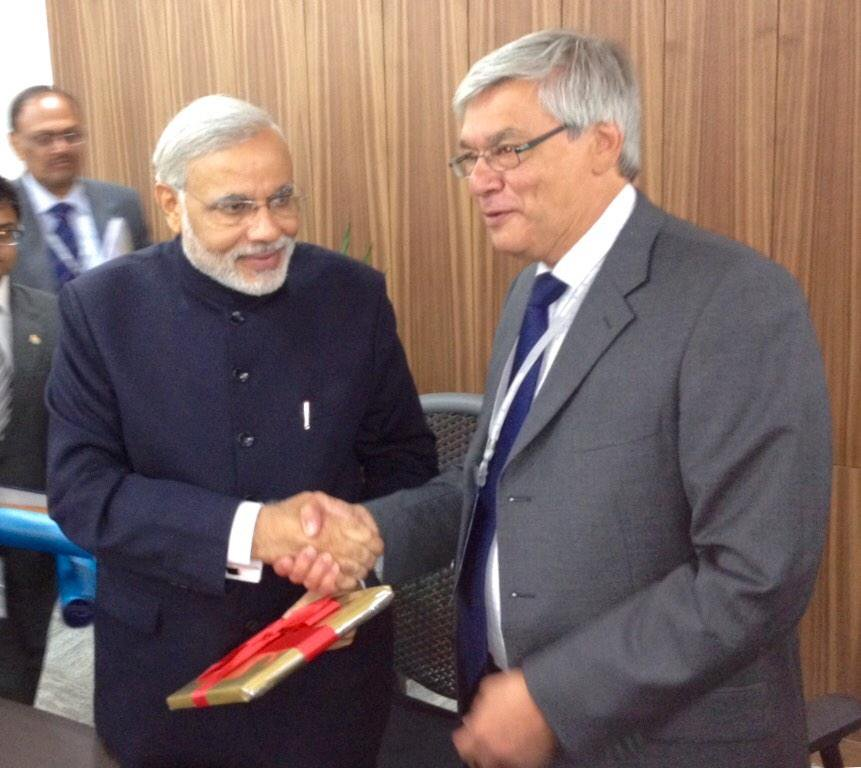 South Australian Special Envoy to India Brian Hayes meeting Indian Prime Minister Narendra Modi in 2014.